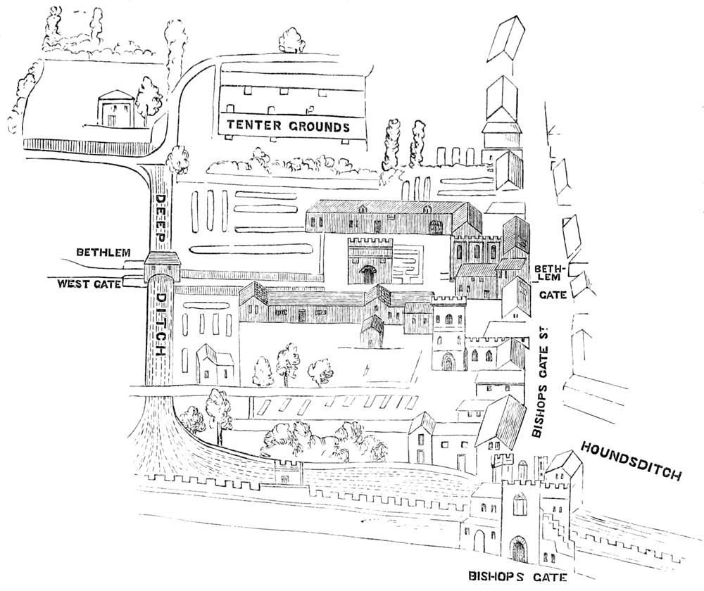 Plan of the First Bethlem Hospital from Daniel Hack Tukes' Chapters in the History of the Insane in the British Isles (London, 1882), p. 60. Royal Bethlem Hospital Bedlam